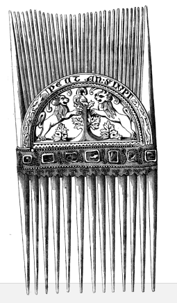 Liturgical comb of St Loup, Sens, Yonne (France)